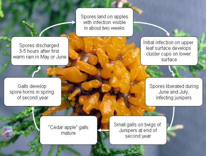 Diagram showing the cyclis life of cedar apple rust.